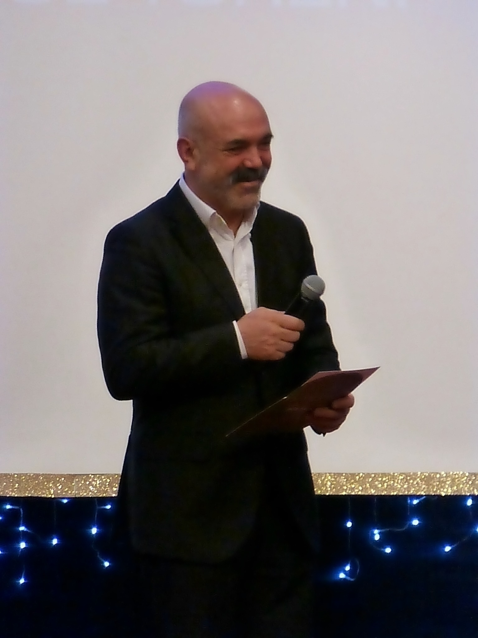 Ercan KesalTürkçe: Ercan Kesal